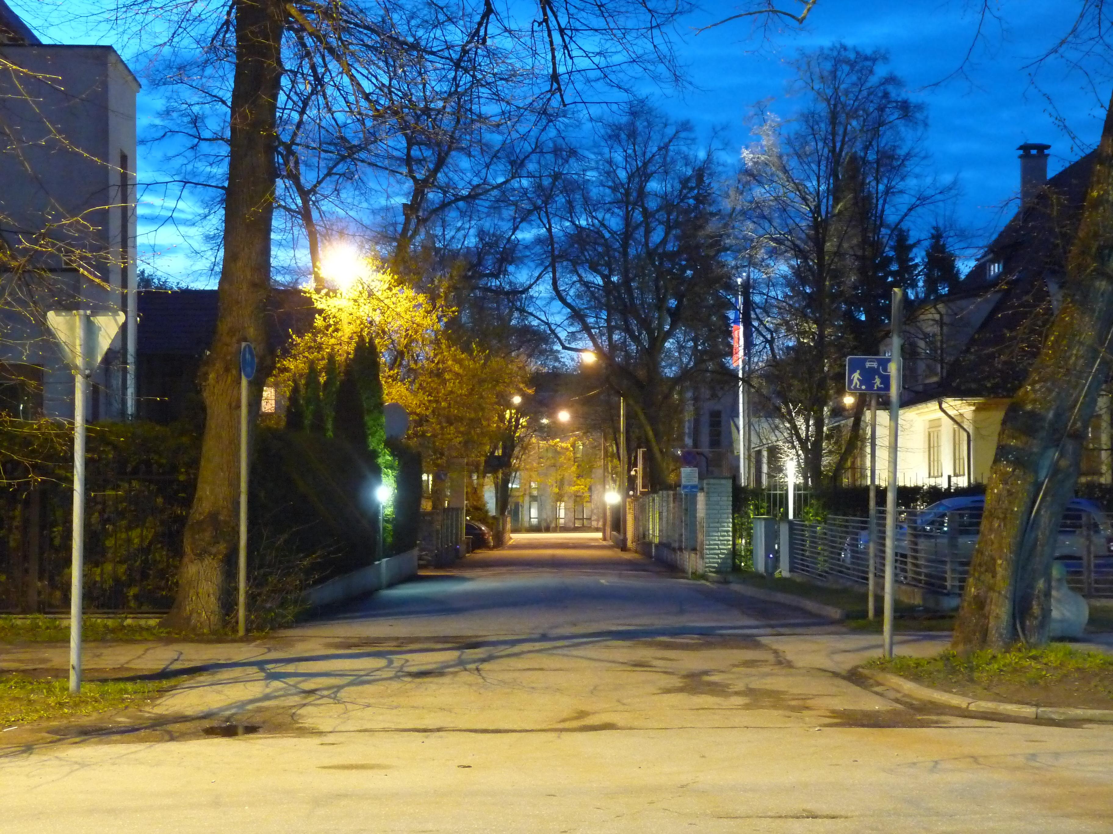 Lahe street in Tallinn, Estonia